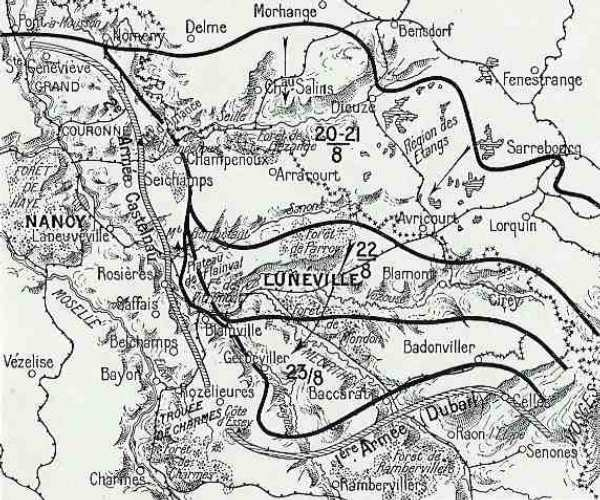 French withdrawl in Lorraine 20 23 august 1914